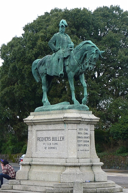 Bronze equestrian statue of General Sir Redvers Buller by Adrian Jones, 1905. Buller was born in Crediton, Devon in 1859 and died there at the family seat, Downes House, in 1908. See his biography at Redvers_Henry_Buller. This statue is at the junction of New North Road and Hele Road. The side inscription reads: "REDVERS BULLER, VC, GCB, GCMG, OF DOWNES". The end inscription reads: "INDIA CHINA CANADA ASHANTI EGYPT SOUDAN SOUTH AFRICA HE SAVED NATAL"